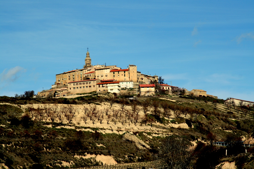 View of Labraza (Alava) Spain